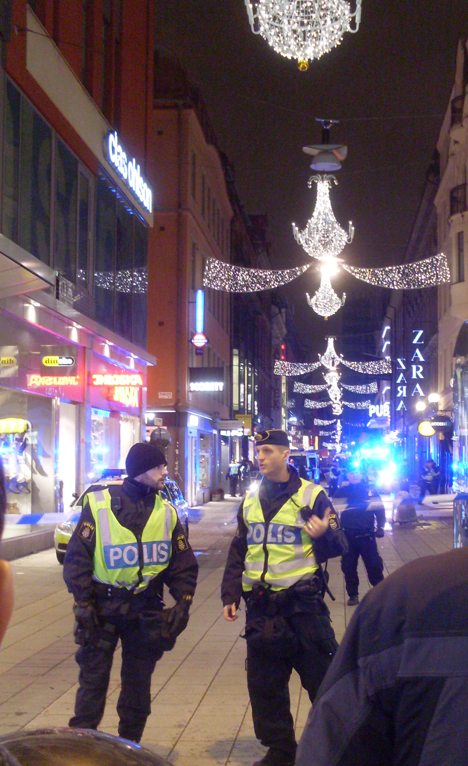 Police shutting off Drottninggatan, normally a crowded shopping street, after the suicide bombing that took place at the corner of Drottninggatan and Bryggargatan (Bryggargatan is the small street seen to the left of this image). This picture was taken approximately an hour after the bomb went off.